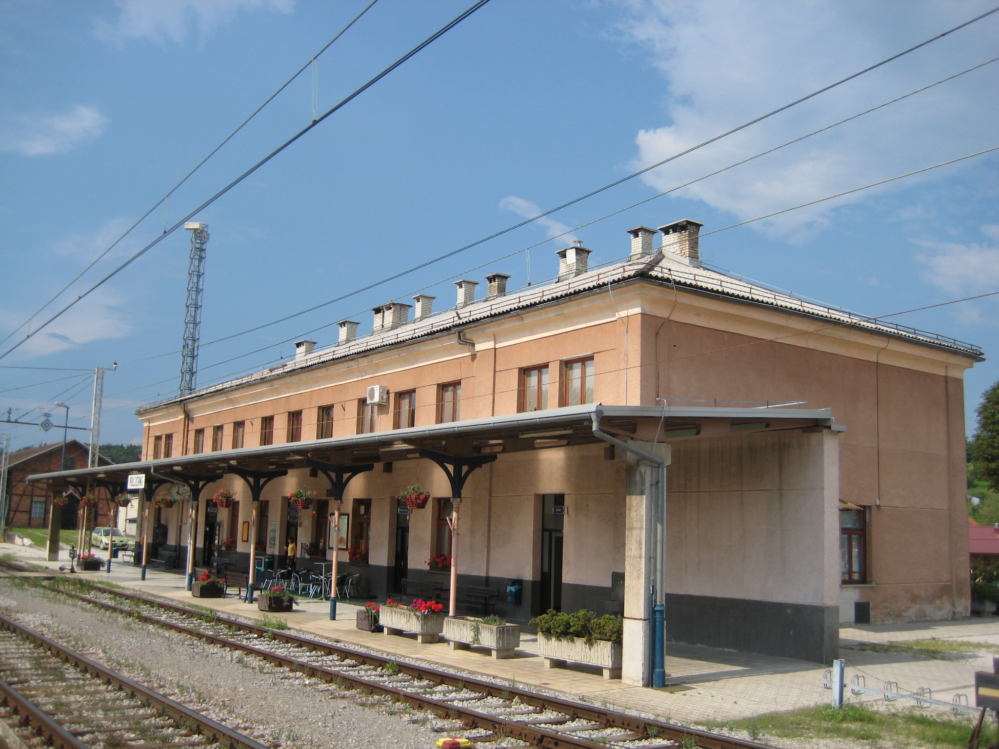 Poljčane train Station, Slovenia